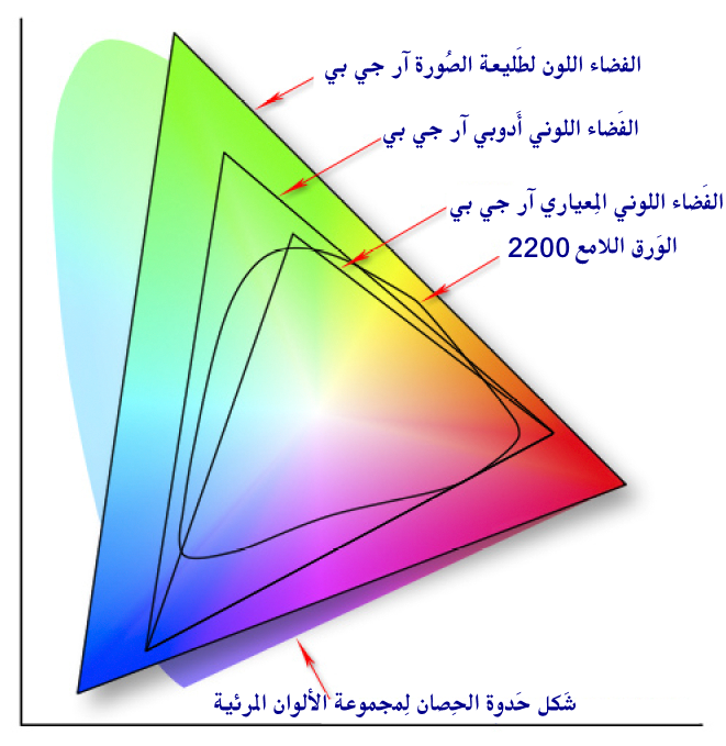 This is a map that compares how much of the color spectrum (that large oval in the far back) different color spaces cover. ProPhoto RGB covers the most of the spectrum, Adobe RGB is the second largest, and sRGB is the smallest. Also shown is the color limits of the Epson 2200 printer. From the original document: A Color Managed Raw Workflow - From Camera to Final Print (.PDF) "This gamut map of the various color spaces shows that there are colors that can be printed on an Epson 2200 that fall outside of both the sRGB color space and the Adobe RGB color space. Cameras' capturing and printers' printing are not limited to the sRGB color space." Image created by Jeff Schewe